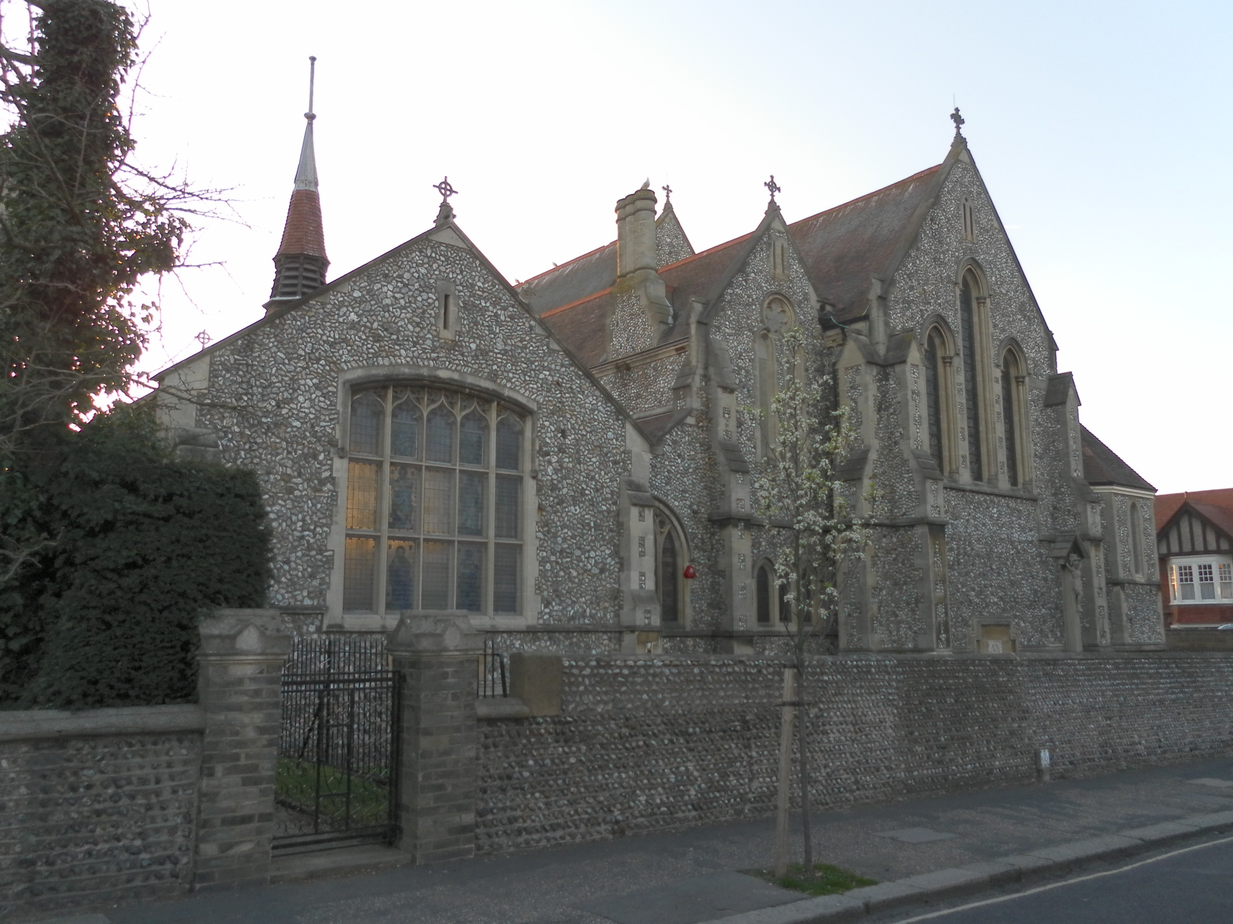 St Andrew the Apostle parish church, Clifton Road, Worthing, West Sussex, seen from the southeast from Victoria Road. On the left nearest the camera is the church hall, which is a separately-listed building.